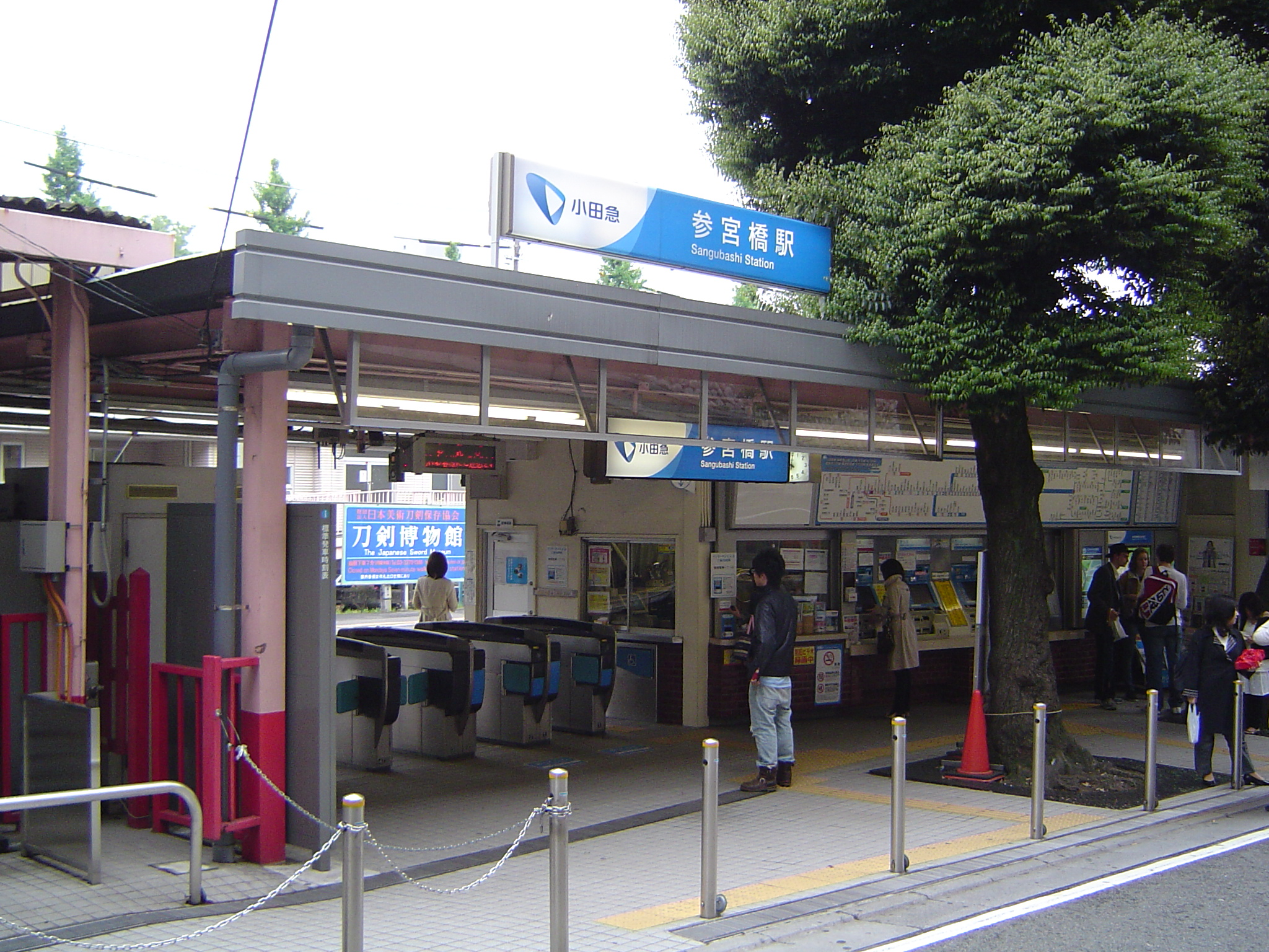 Odakyu Electric Railway, Odawara Line, Sangūbashi Station